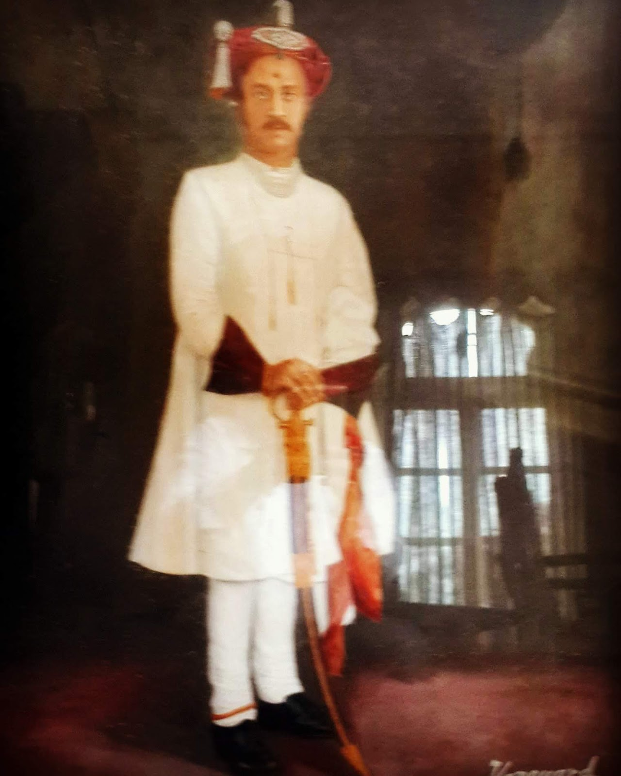 यशवंतराव मुकने के पिता